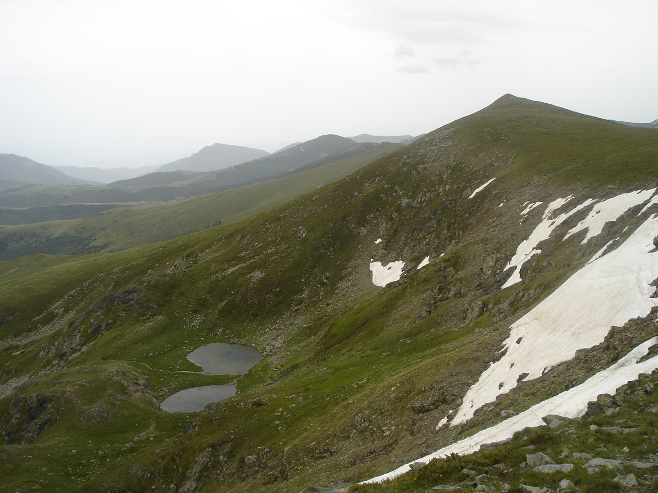 Salakovi glacial lakes on Jakupica, Macedonia